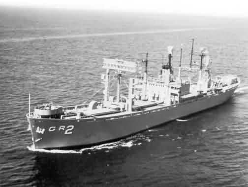 USS Lookout (AGR-2) underway, date and location unknown. US Navy photo